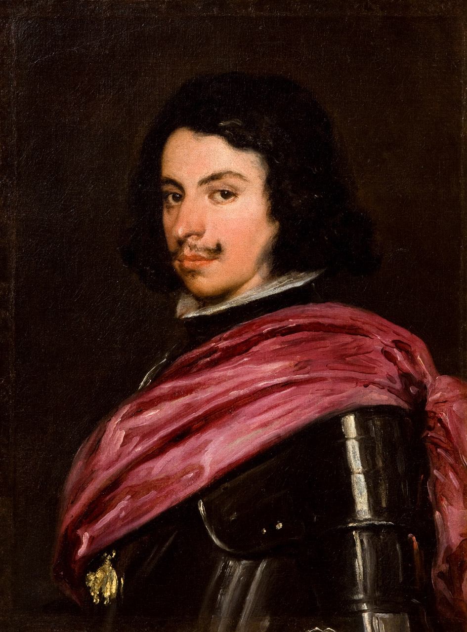 Francesco I d'Este Duke of Modena dressed with armor and spanish XVII century fashion of court, also wearing a castilian ruff; hanging from his neck the Order of the Golden Fleece